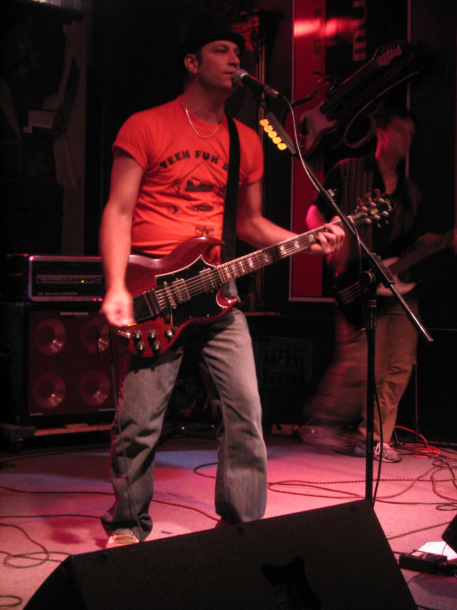 Photograph of Bruce McDaniel, taken at Nine Men's Morris show at Theodore's (Springfield, MA), August 25, 2004.